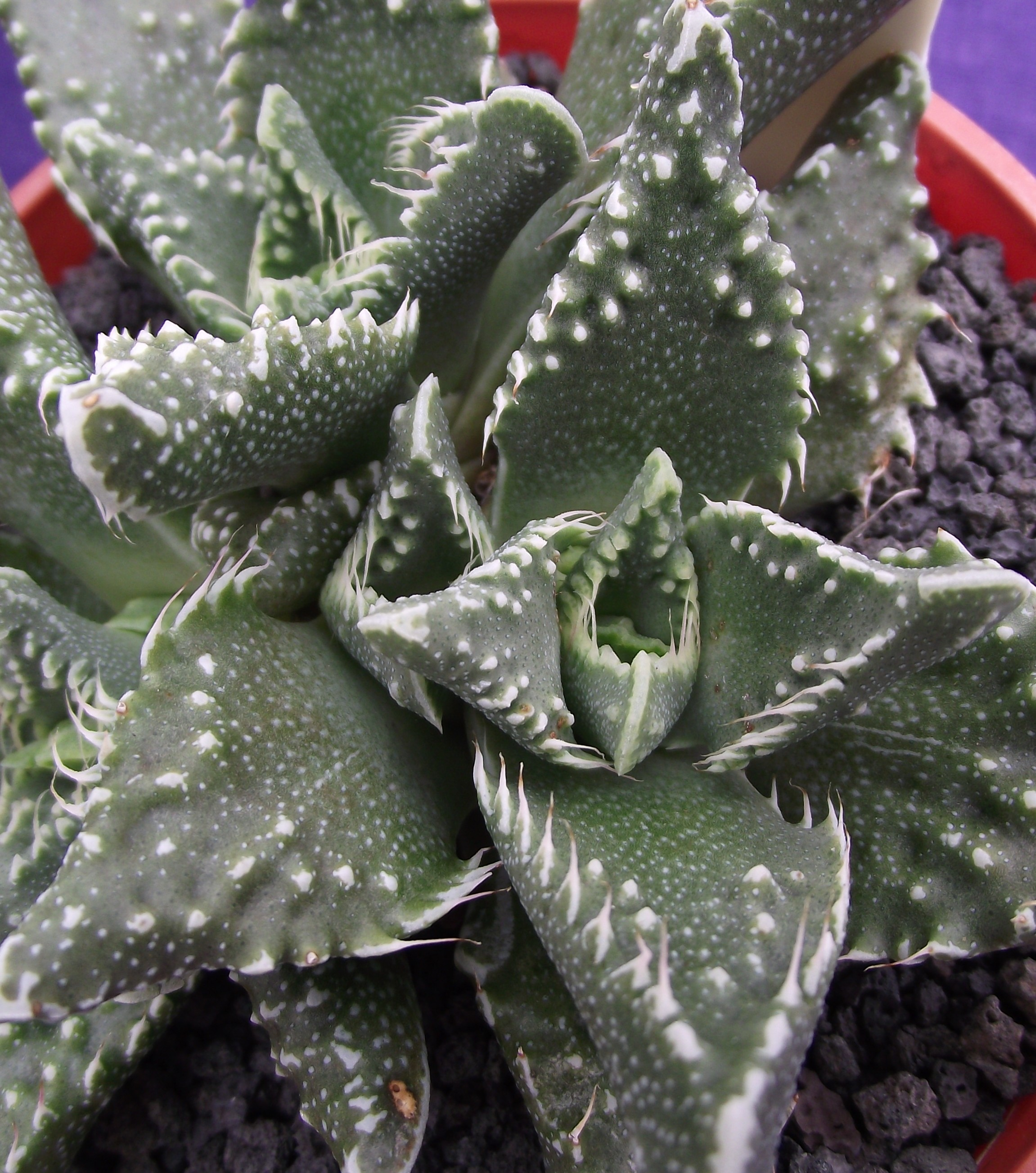 Faucaria tigrina at the San Diego Home & Garden Show, California, USA.